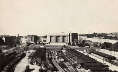 VR warehouses in the 1950s.